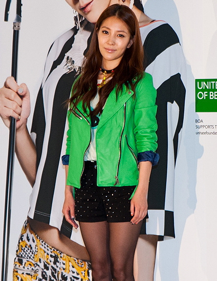 BoA at F&F building, Yeoksam-dong, Gangnam-gu, Seoul, in March 2013